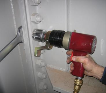 pneumatic torque wrench